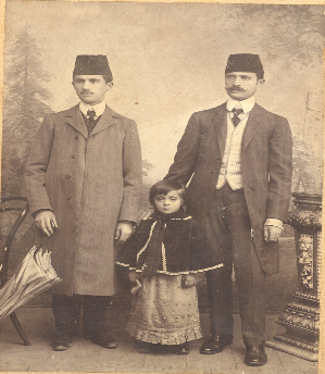 Faik and Izet Shatku